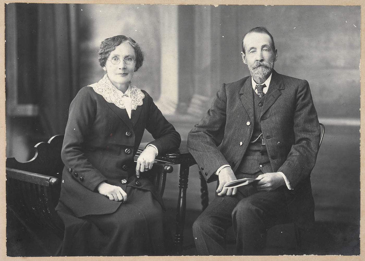 No. 39. Suzannah F. & John Franklin, parents of Stella Miles Franklin